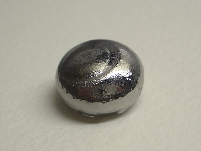 A button of tantalum